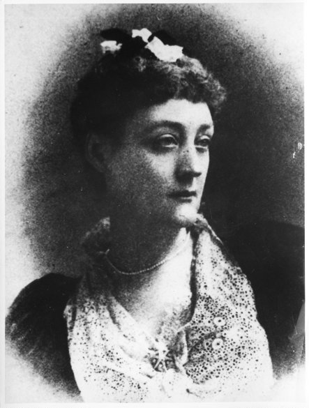 Portrait of Rosa Praed. Mrs. Campbell Praed [picture] / photo, Elliot and Fry. 21.3 x 15.9 cm.